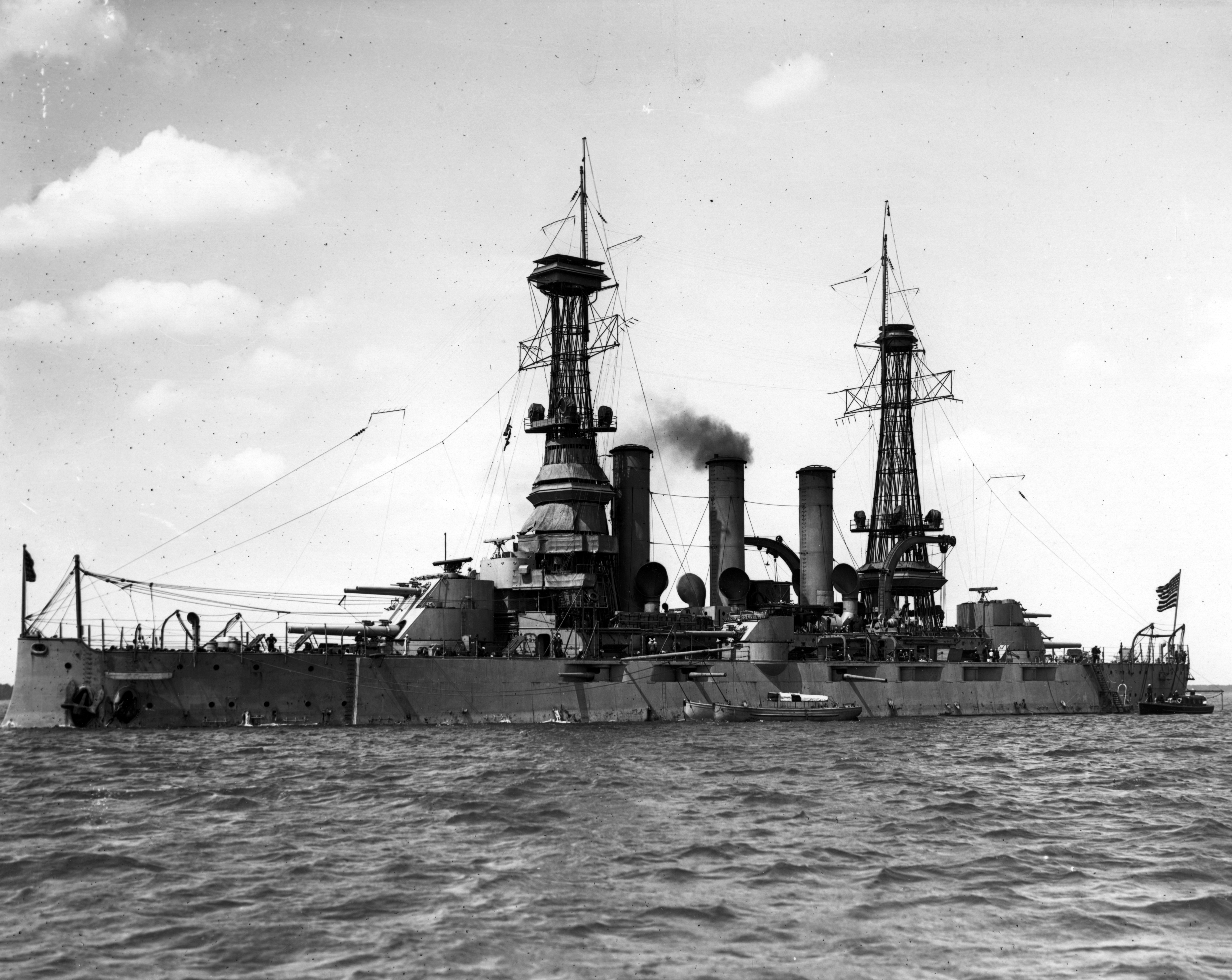 USS Virginia (BB-13) battleship, photographed at anchor, circa 1918, after receiving World War I alterations, among them the removal of her after six-inch broadside guns Removed caption read: Photo # 19-N-3-6-19 USS Virginia at anchor, circa 1918